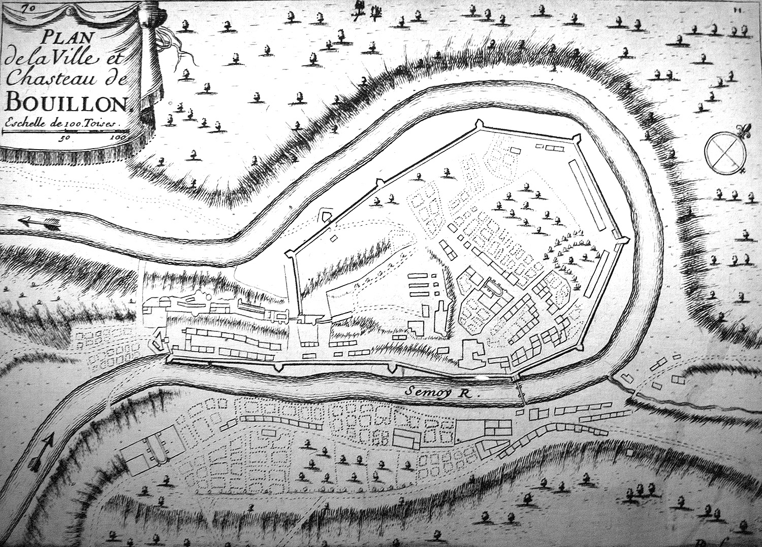 Bouillon, Belgium, former plan of the walled city and castle.